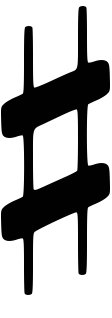 Sharp